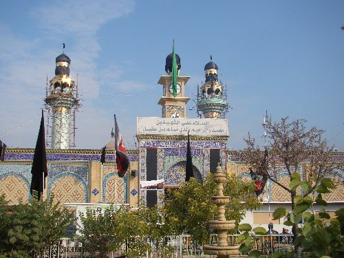 Muslim bin aqeel sons in Al mseab in Iraq